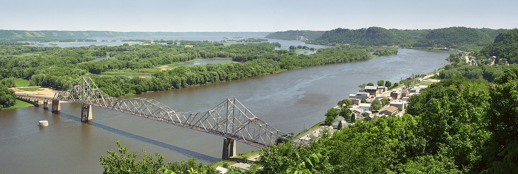 View of Black Hawk bridge, Mississippi River and Lansing IA from overlook atop Mount Hosmer Iowa.